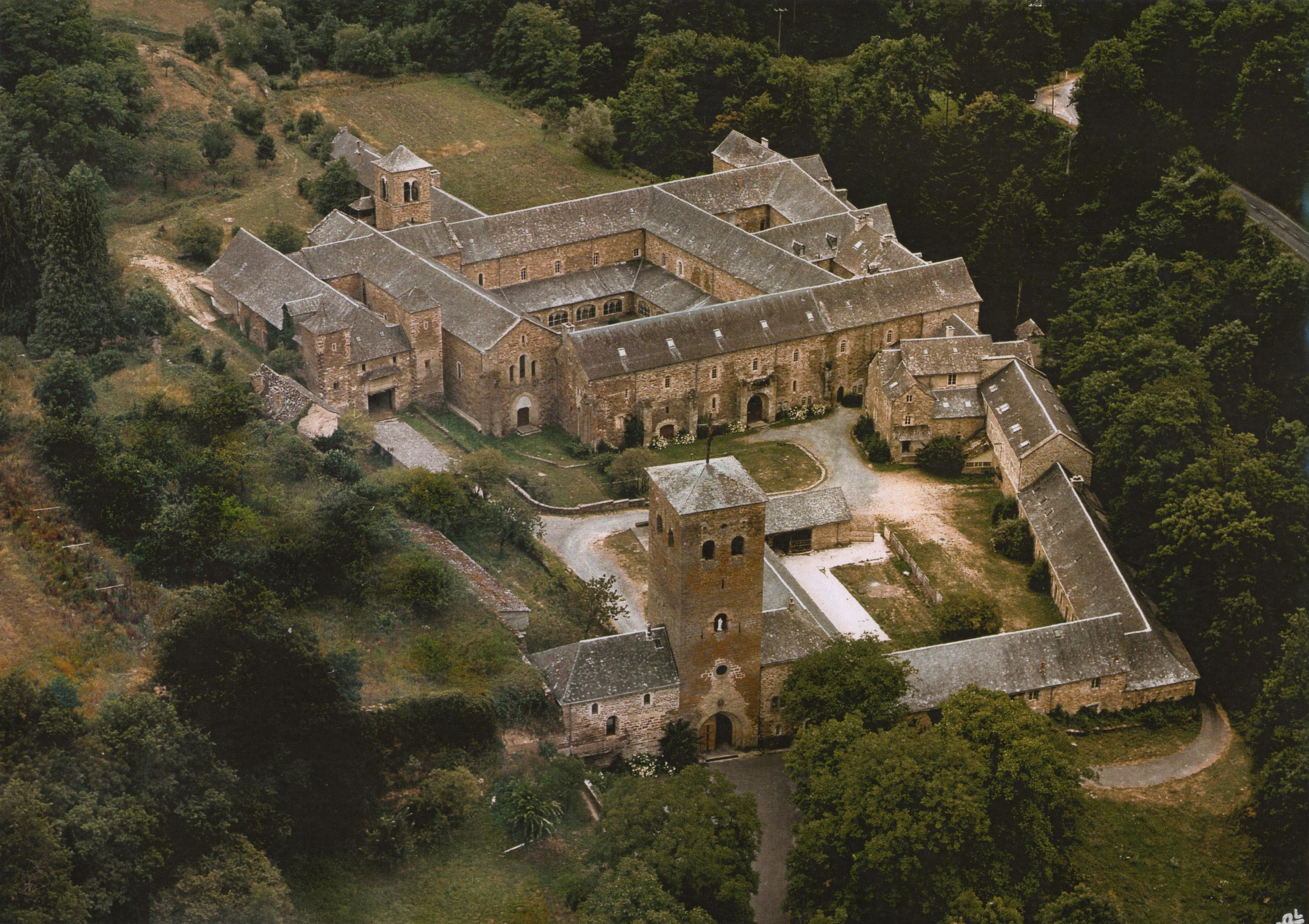 Aerial view of the Bonnecombe abbey, Aveyron, France.